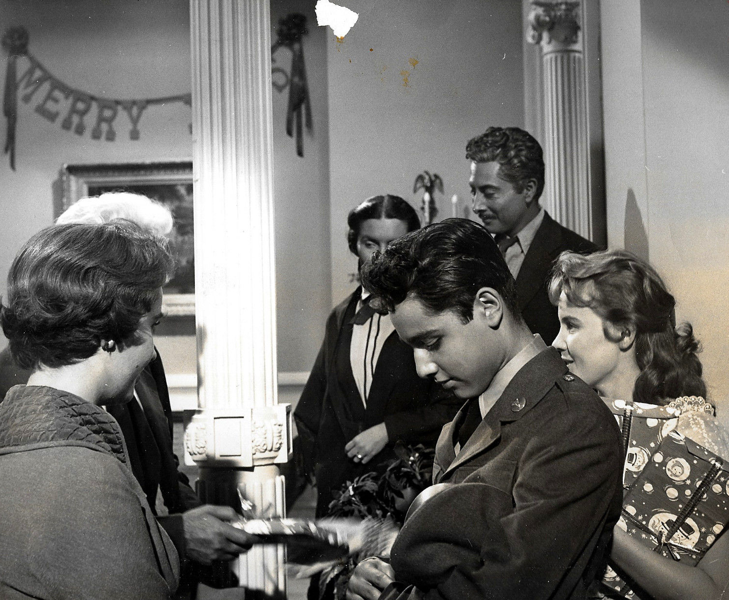 Elizabeth Taylor, Sal Mineo, Carroll Baker, Pilar del Rey, and Victor Milan on the set of Giant (1956)